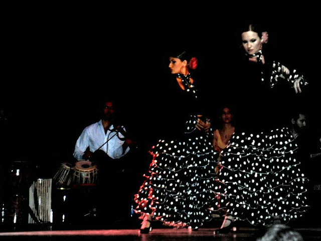 solea.por.bulerias.